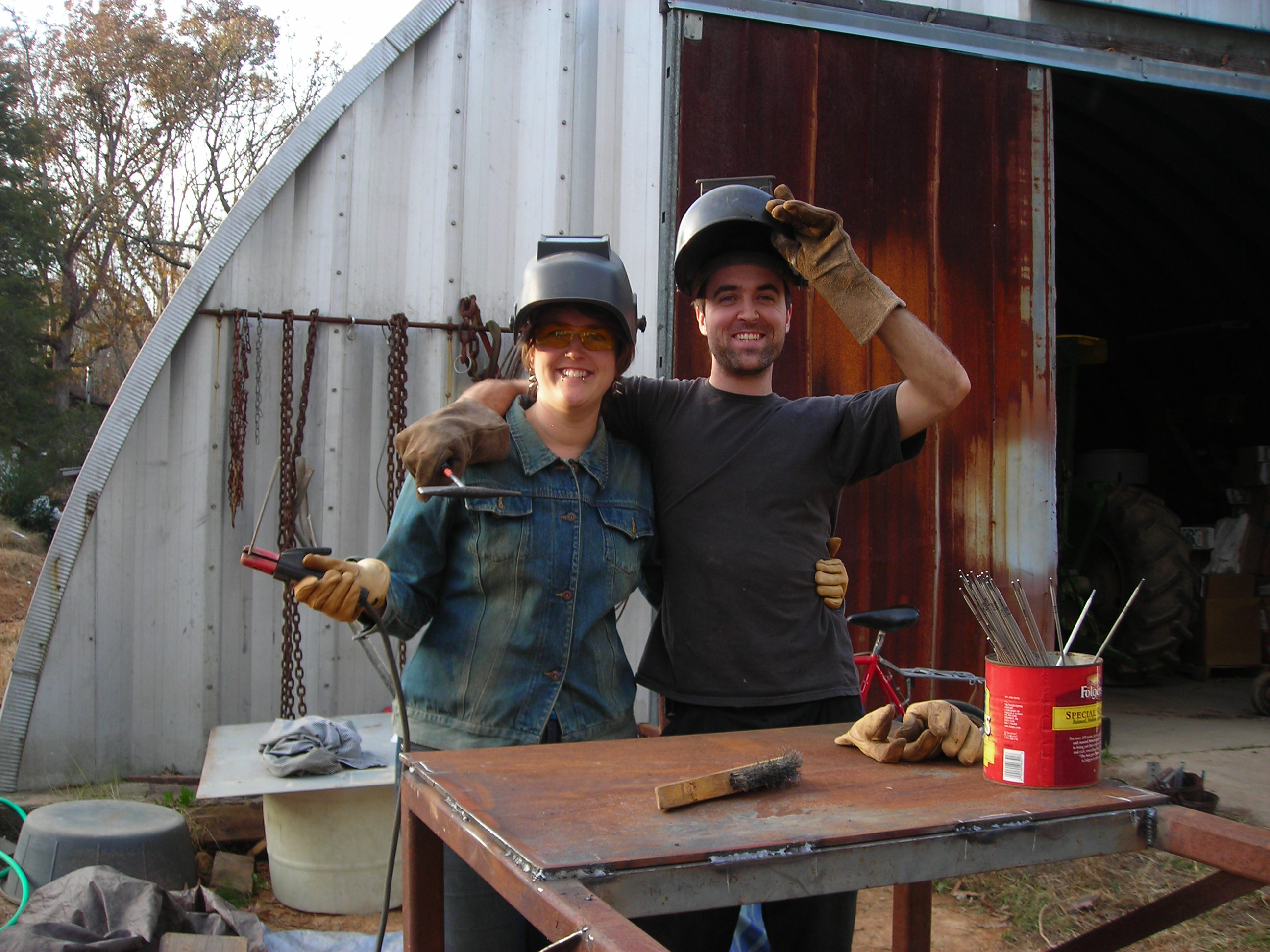 welding